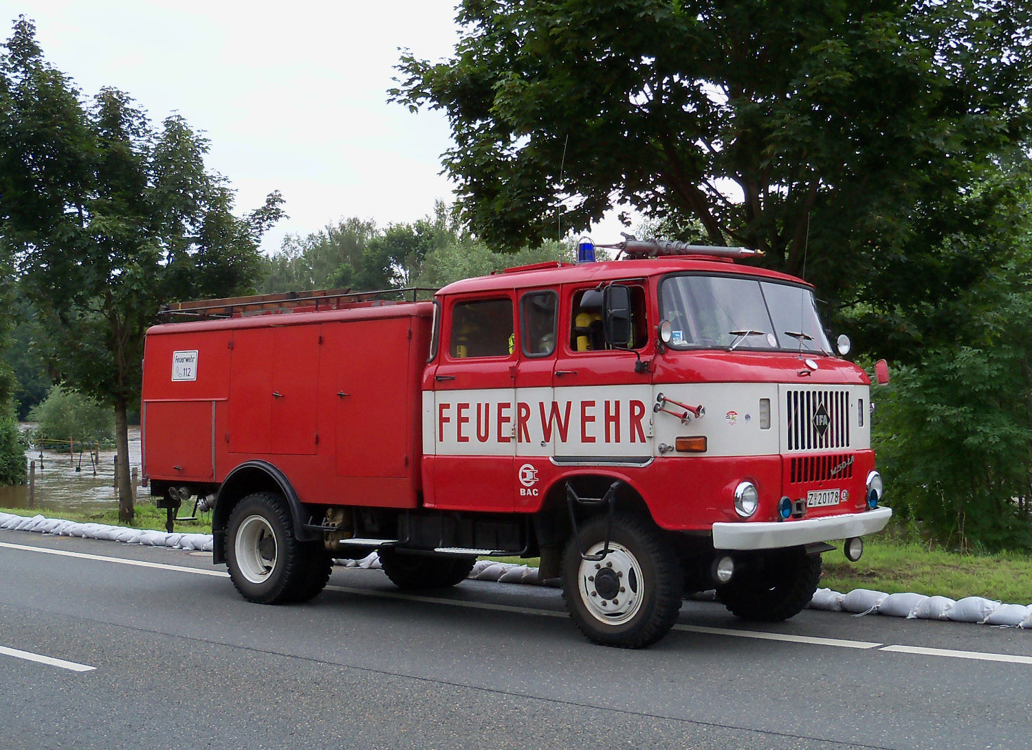 IFA W50 water tender of the voluntary fire dept. of Wilkau-Haßlau, Germany